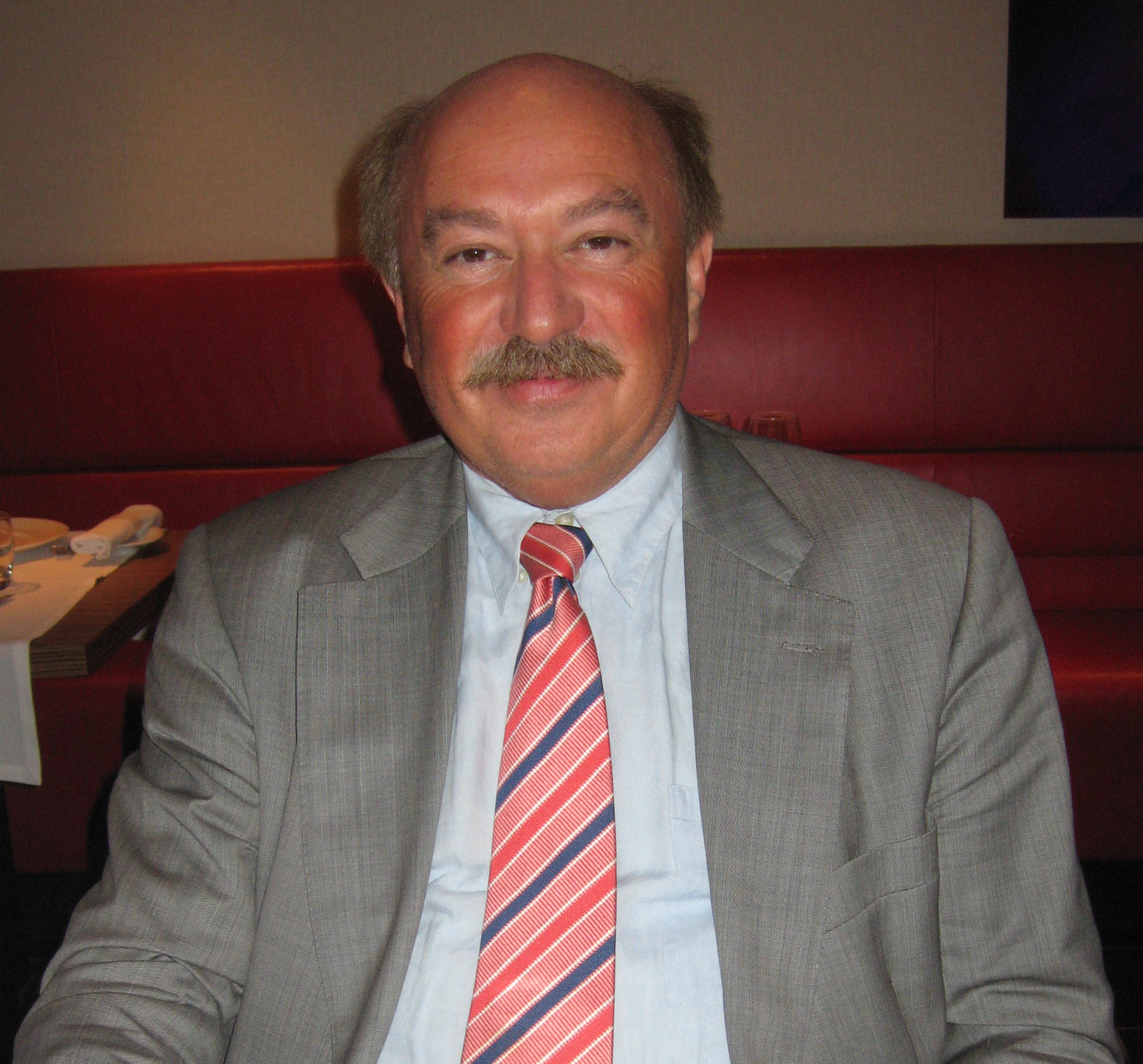 Hermann J. Huber, Barcelona 2008